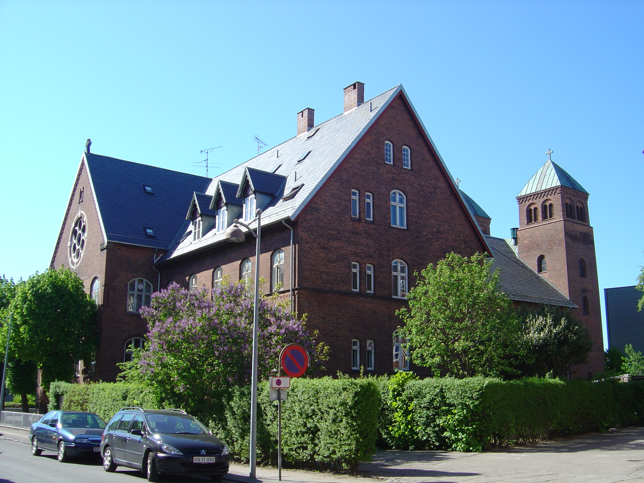 Sankt Annæ Kirke - a Danish Catholic Church located on Amager, Copenhagen. Seen from Hans Bogbinders Allé / Amagerbrogade.